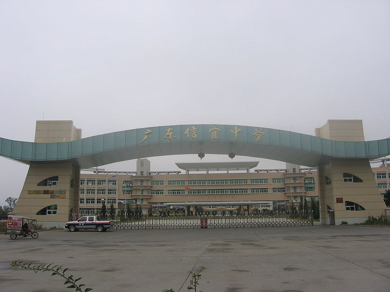 Xinyi Middle School, front gates and school. Originally photographed and uploaded to zh by User:Girasole as "Xinyi High School". It is actually a middle school, not a high school. 茂名信宜中学 = Maoming Xinyi Middle School, located in Maoming, Guangdong. Picture is currently used on primary infobox at 茂名 (Maoming).